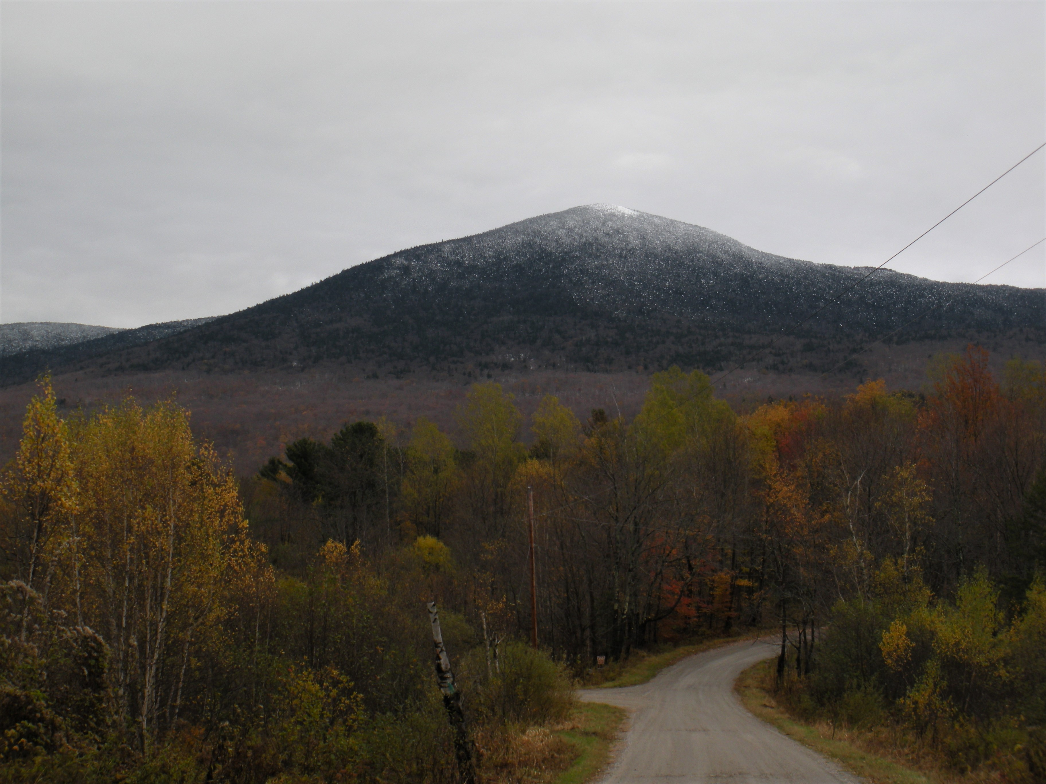 Mount Abraham as seen from the West, after the first snow of the year 2010